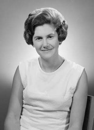 Studio portrait of Tamie Fraser in 1968.